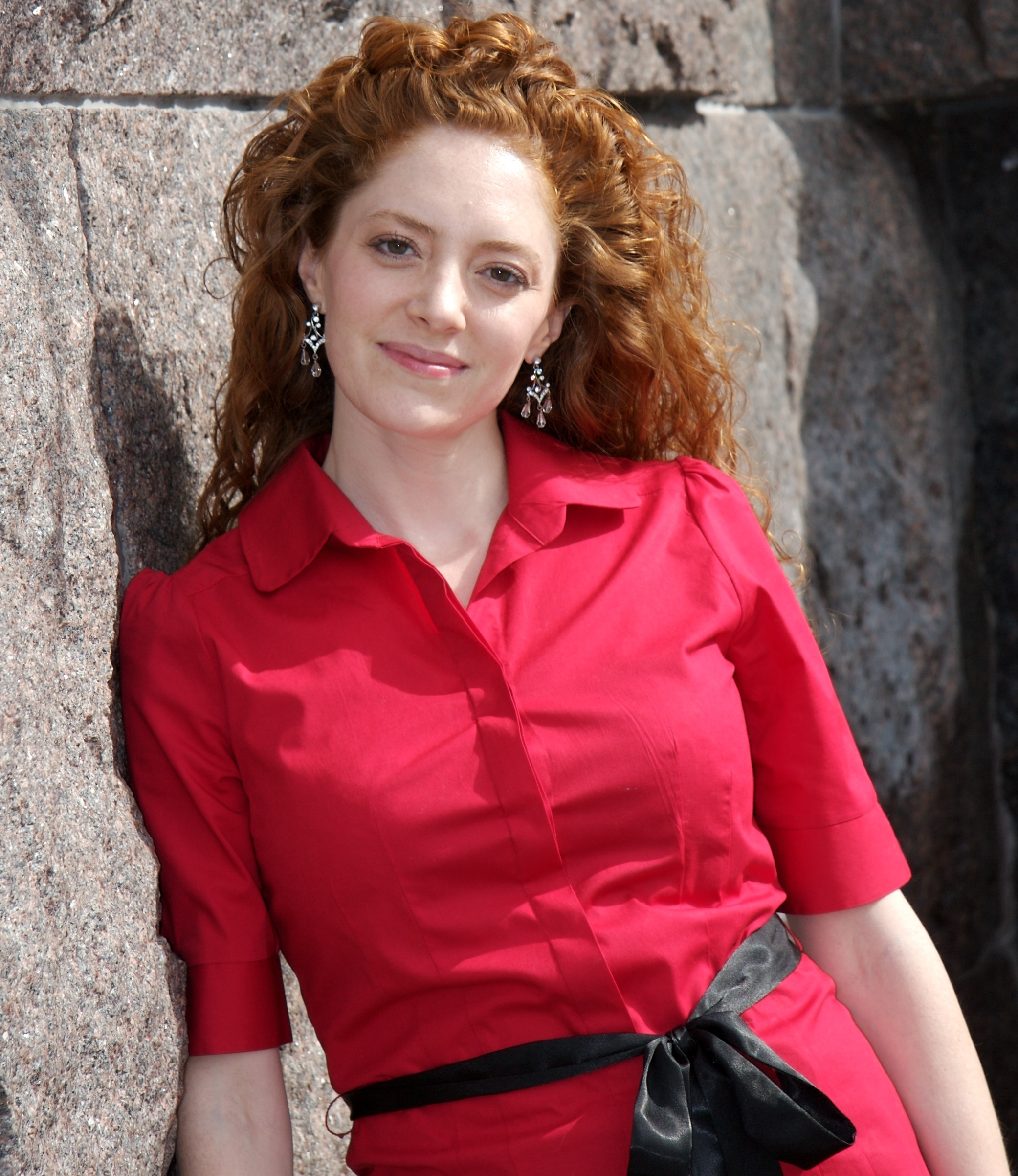 Portrait of Lisa Hopkins